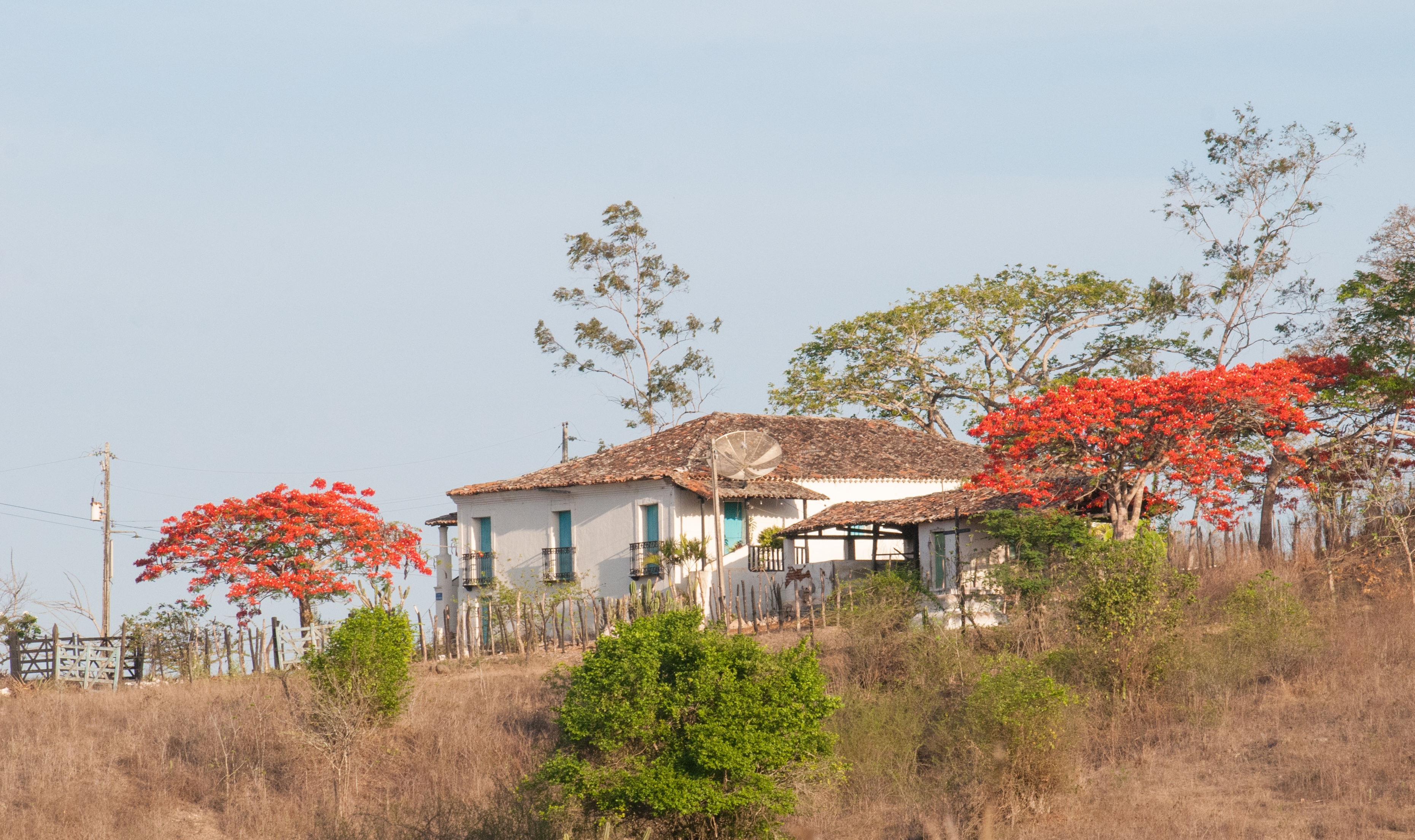 João Alfredo municipality in Pernambuco State, Brazil Northeast